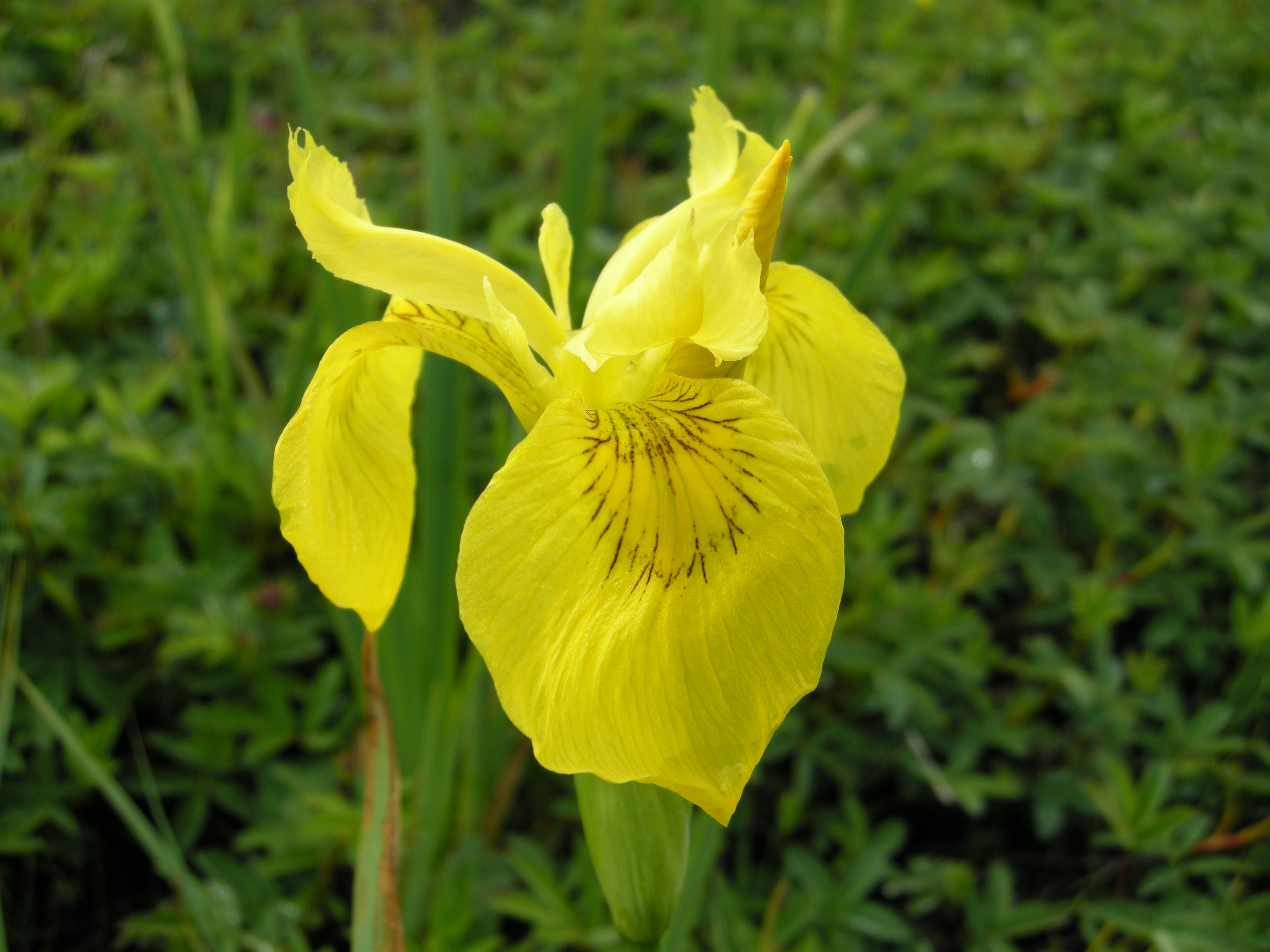 Yellow iris - Iris pseudacorus, Eftang, Norway